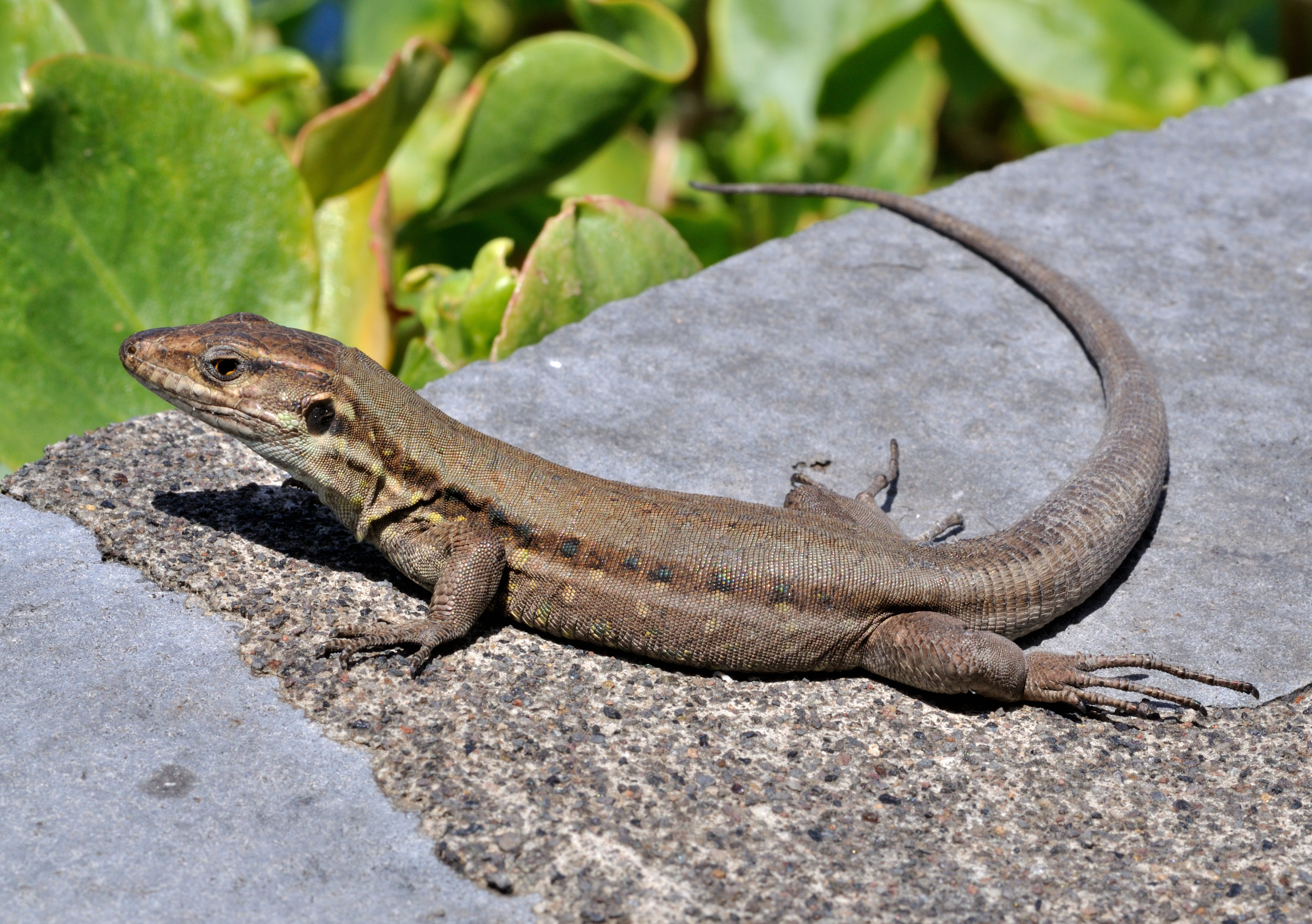 Female Tenerife Lizard (Gallotia galloti) in Puerto de la Cruz, Tenerife, Spain.